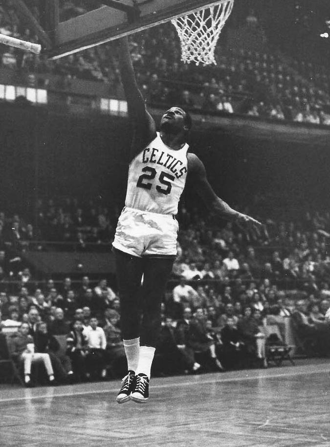 Former American basketball player, K. C. Jones during a game with the Boston Celtics.